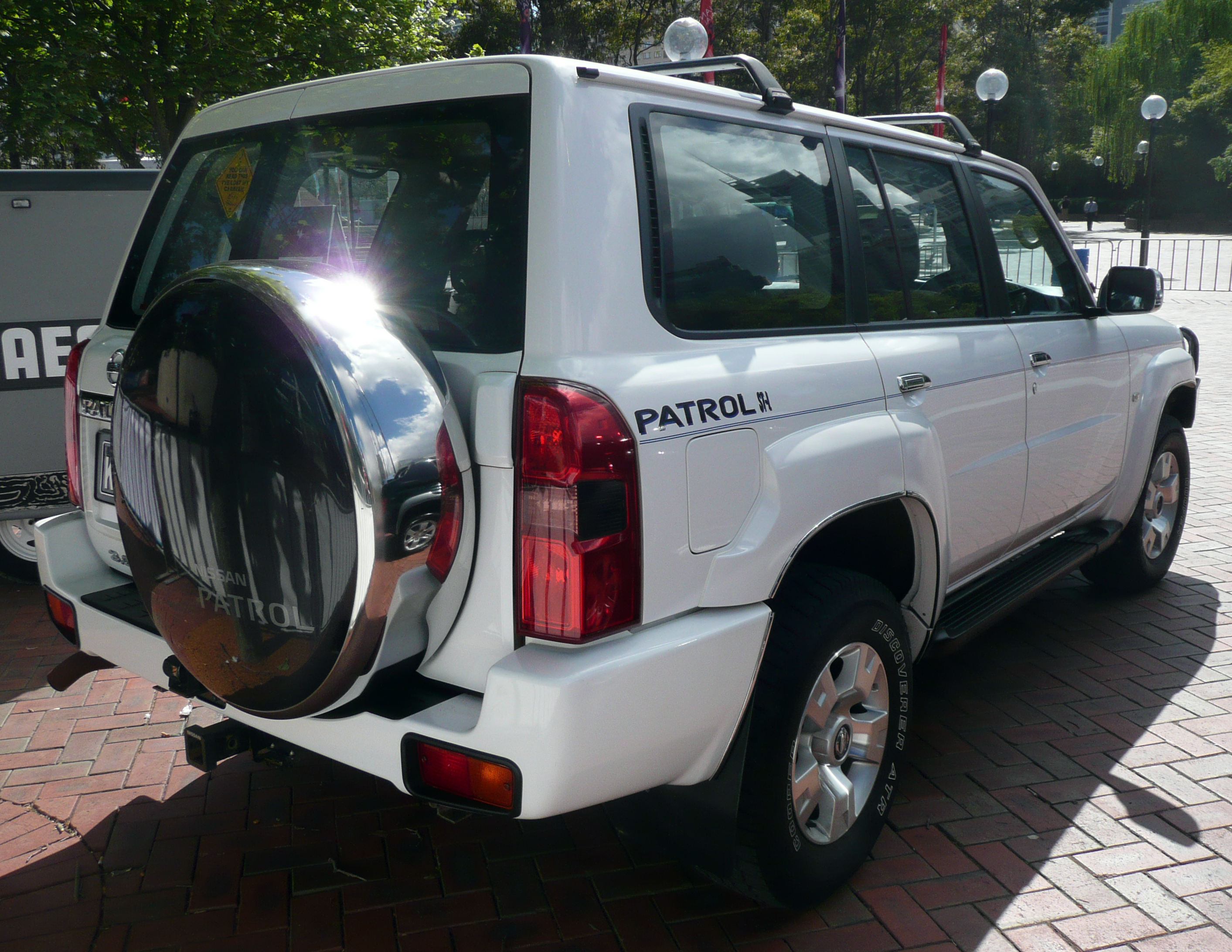 2008 Nissan Patrol (GU 6) ST-L. Photographed at the 2008 Australian International Motor Show, Sydney, New South Wales, Australia.